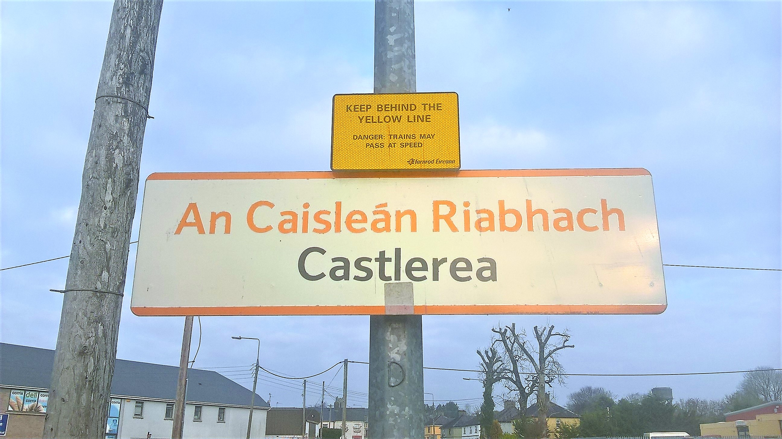 Bilingual train station signs in Castlerea Train Station, Co. Roscommon.